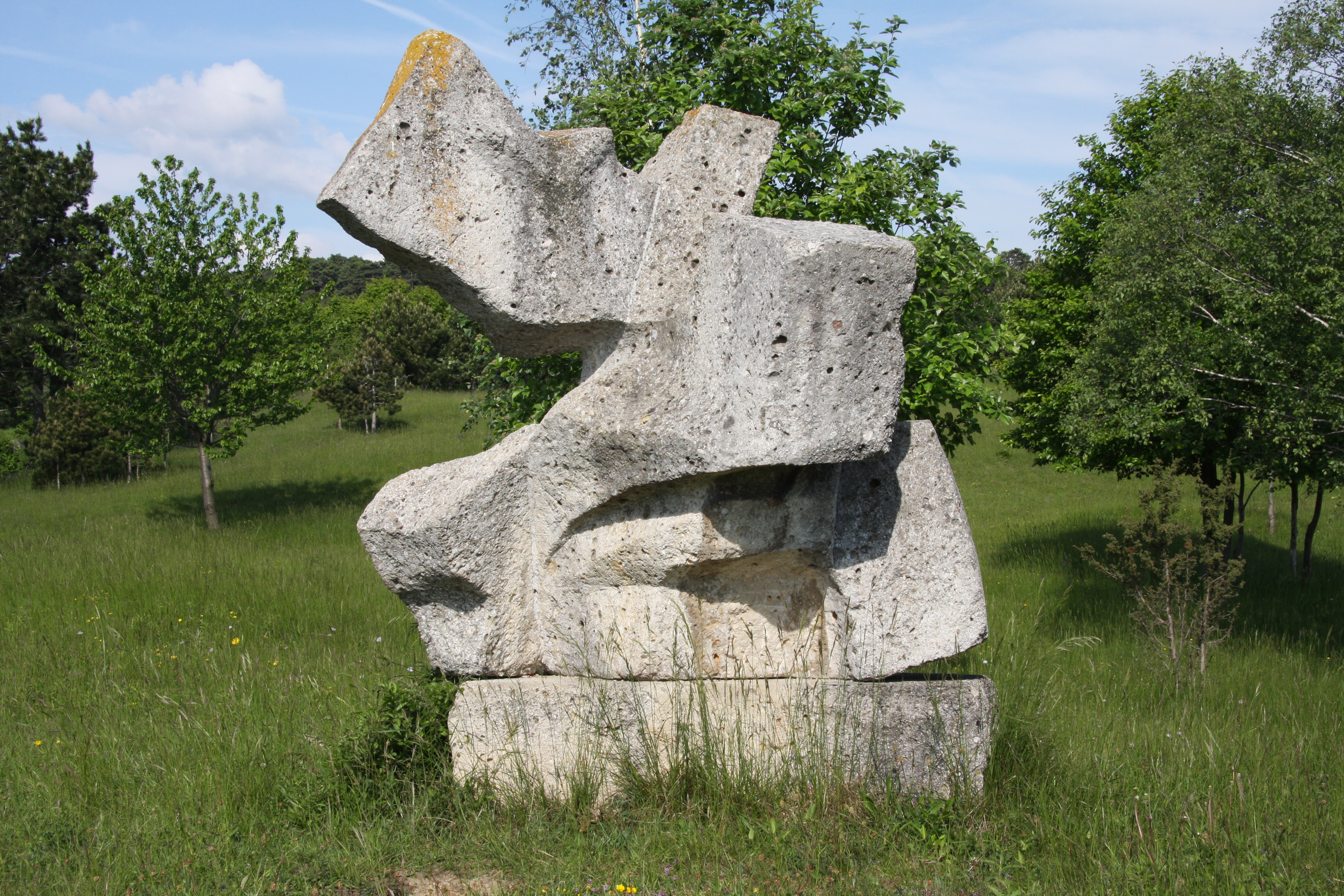 Conglomerate from Lindabrunn: Sculpture of the Austrian Sculptor Oskar Hoefinger, 1968, situated at the Skulpturenpark, Symposion Lindabrunn